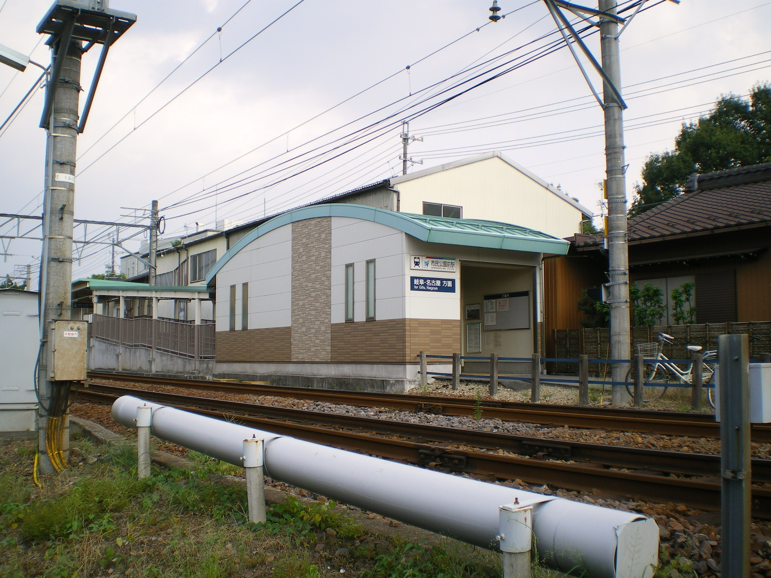 Nagoya Railroad Kakamigahara Line Shiminkōen-mae Station Building (for Gifu)